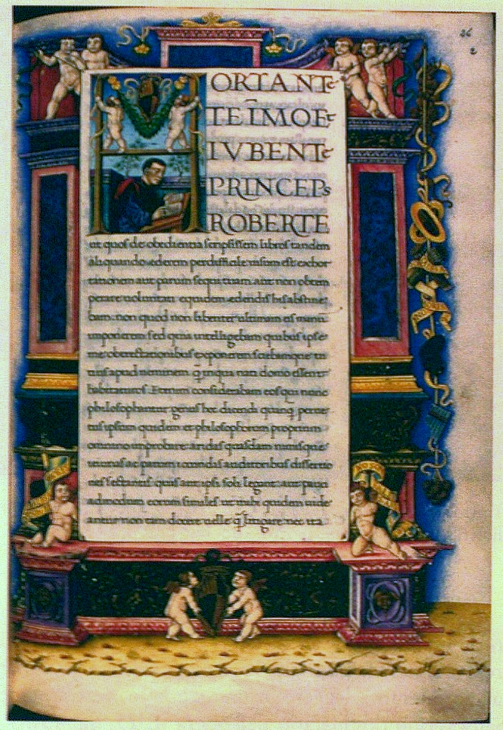 The beginning of the treatise “De oboedientia” in the manuscript Valencia, Biblioteca historica de la universidad, Ms. 52, fol. 26r. Illumination by Cristoforo Majorana.